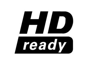 HD Ready